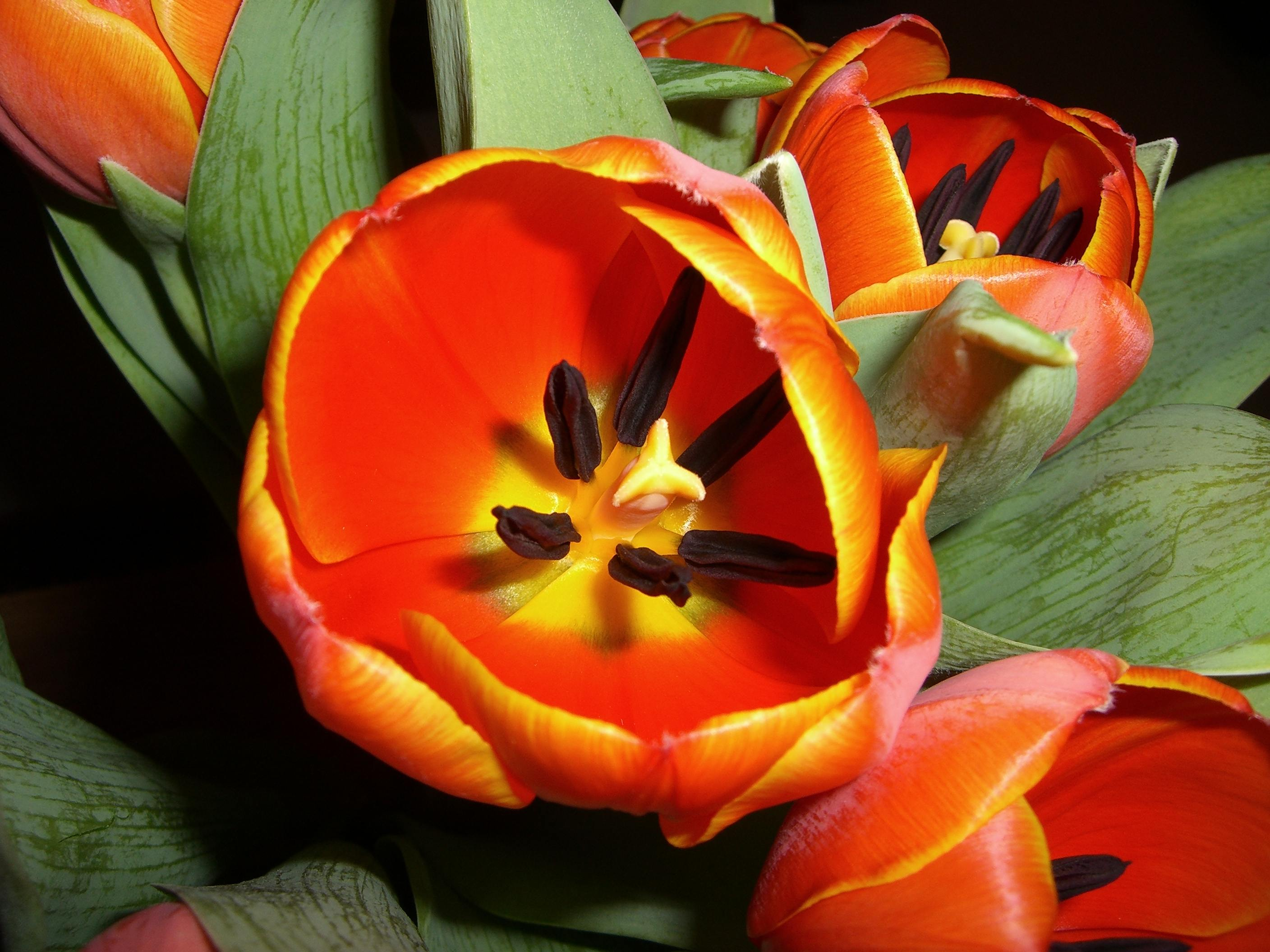 Photo by MisterMatt. Tulip closeup. Gros plan d'une tulipe.